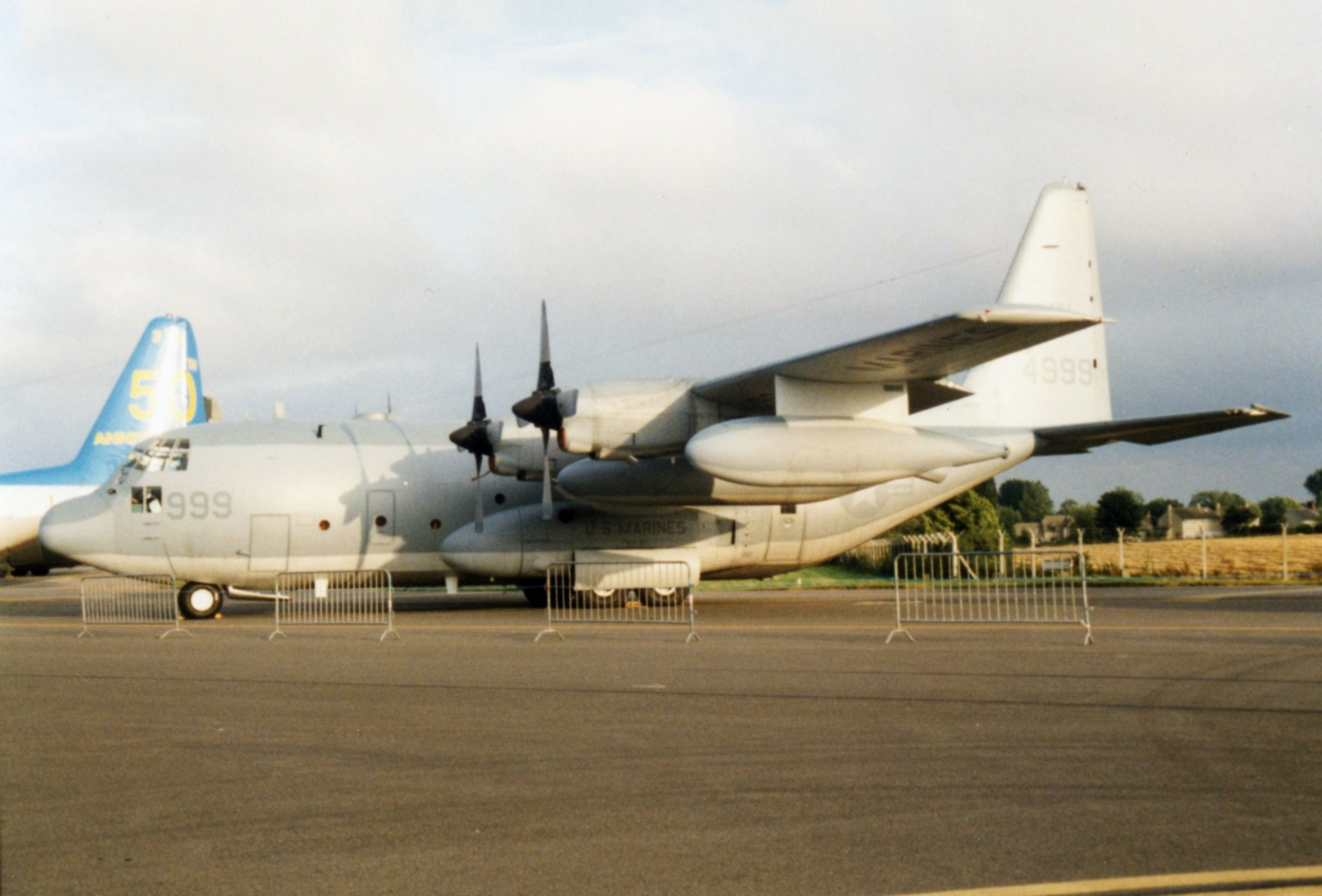 A U.S. Marine Corps Reserve Lockheed KC-130T Hercules (BuNo 164999) from Marine Aerial Refueler Transport Squadron VMGR-452 Yankees during RIAT 1993 at RAF Fairford.